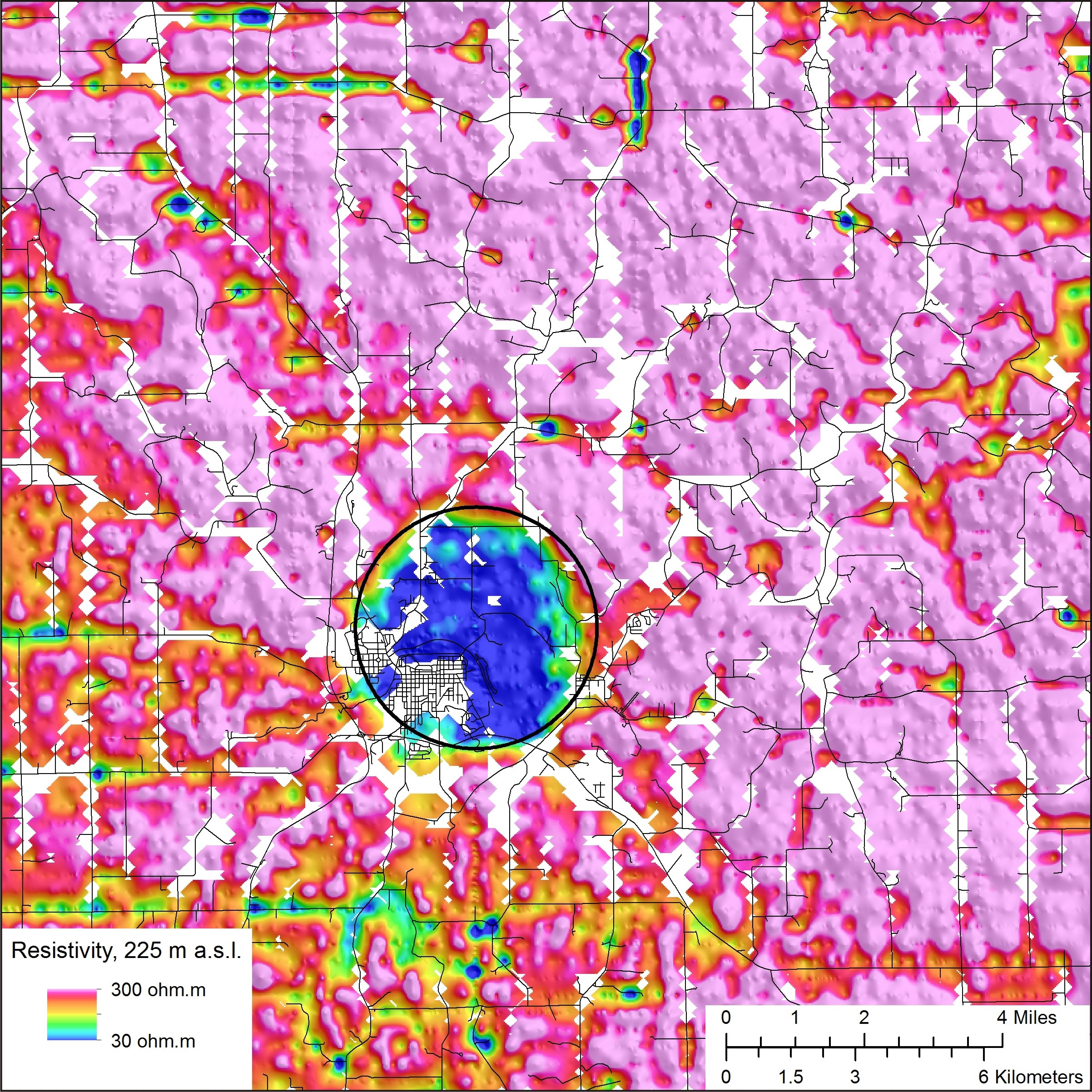 Recent airborne geophysical surveys near Decorah, Iowa are providing an unprecedented look at a 470- million-year-old meteorite crater concealed beneath bedrock and sediments.